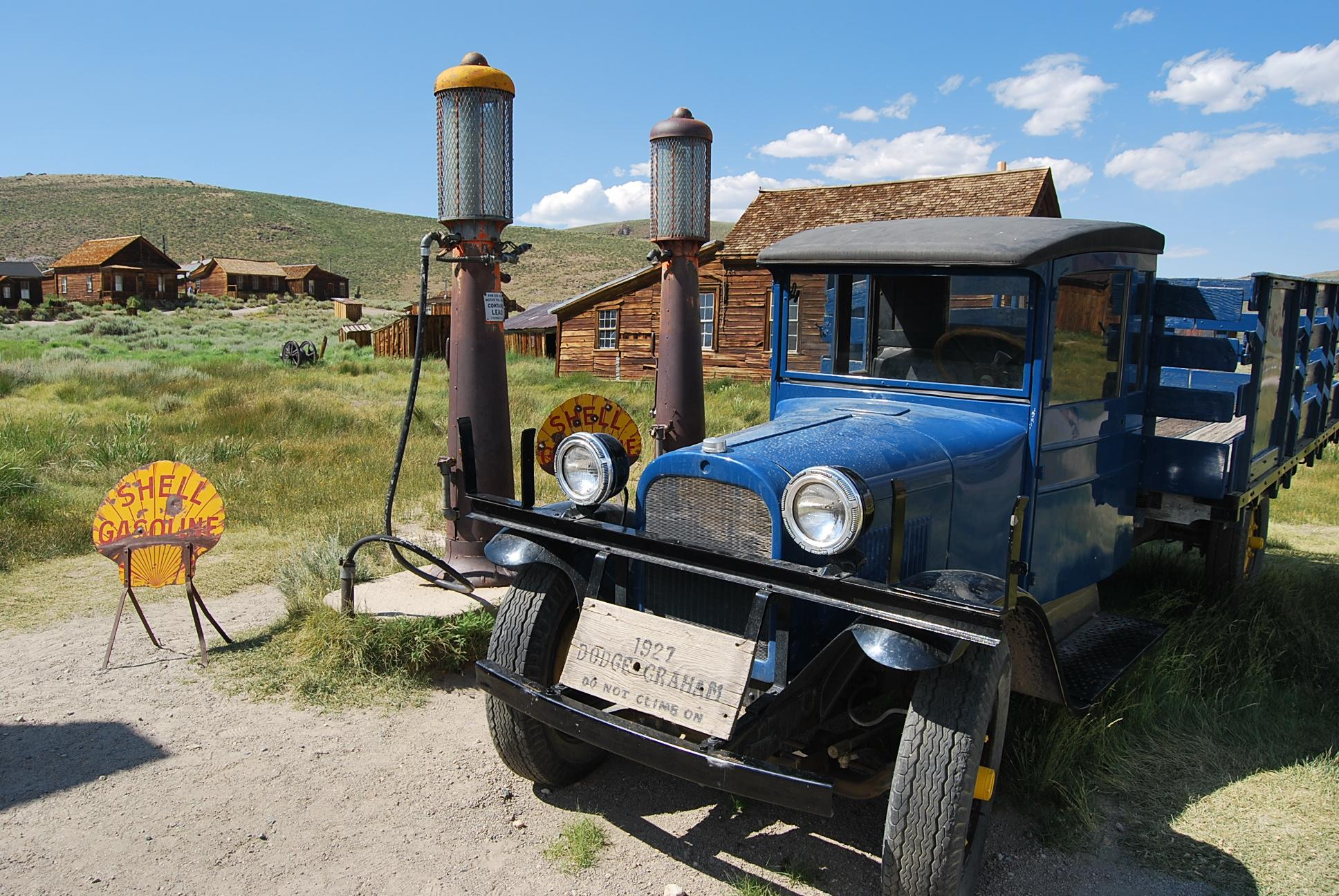 The gasoline stop in Bodie, California. Bullet holes from the 1920s and early 1930s can be seen on the "Shell" signs.